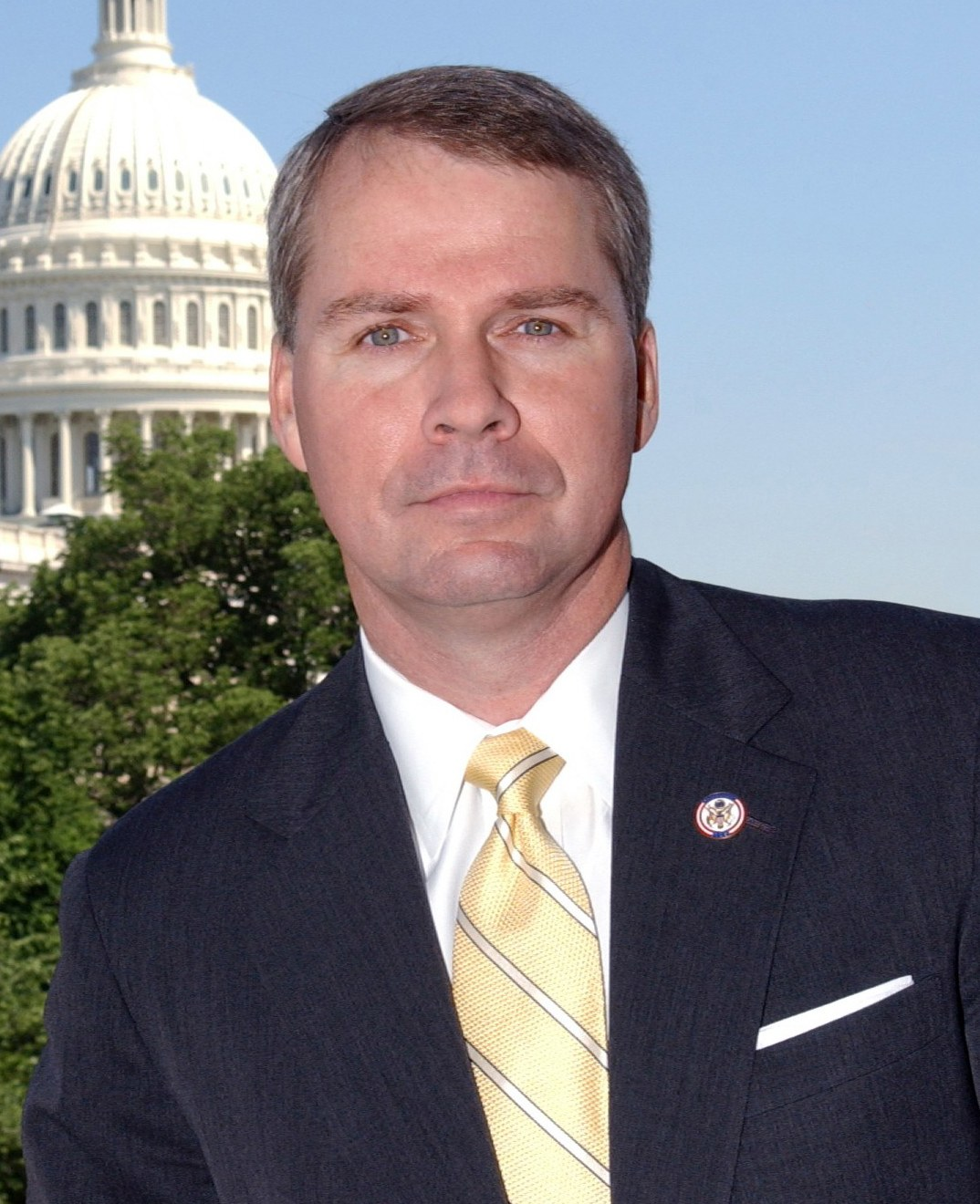 J. Gresham Barrett, U.S. Congressman.